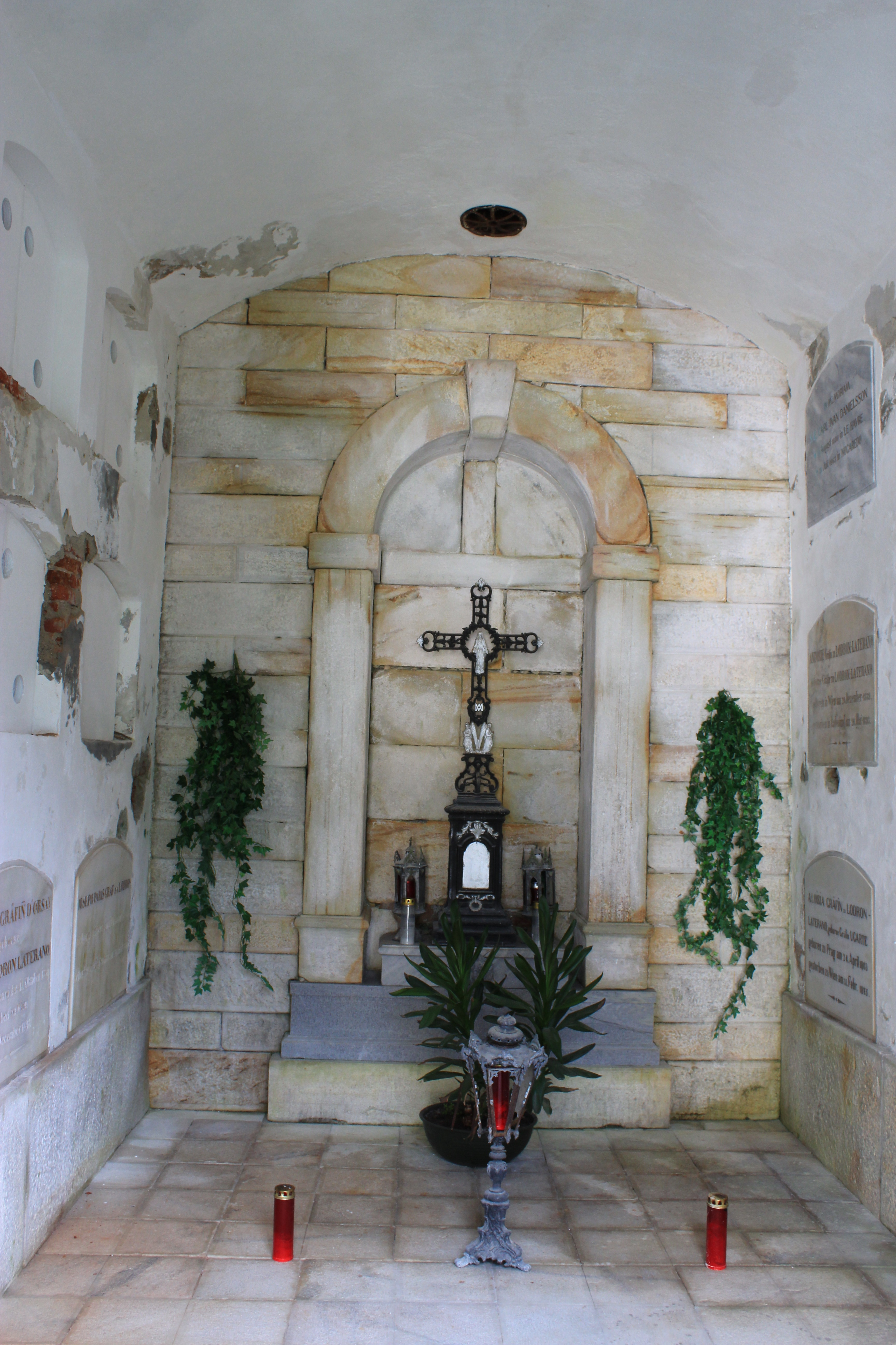 Lodron'sche Gruft in Gmünd